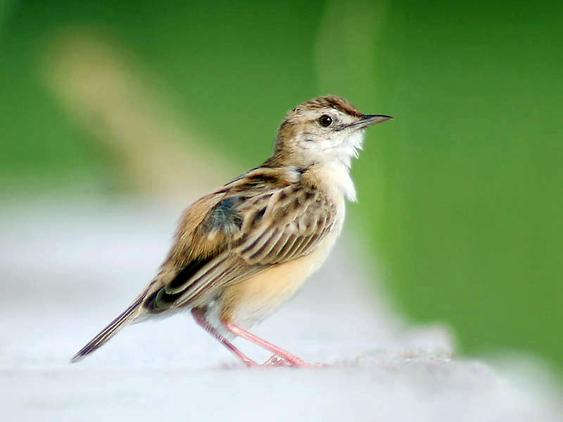 Zitting Cisticola Cisticola juncidis in Kolkata, West Bengal, India.